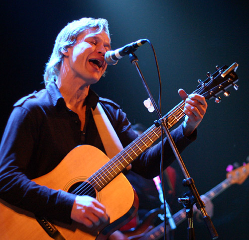 Singer J Perkin (Michiel Flamman) of the Dutch band Solo. Photo taken by Chingon at the You Make Music festival, held at 15 January 2006 in Utrecht, The Netherlands.